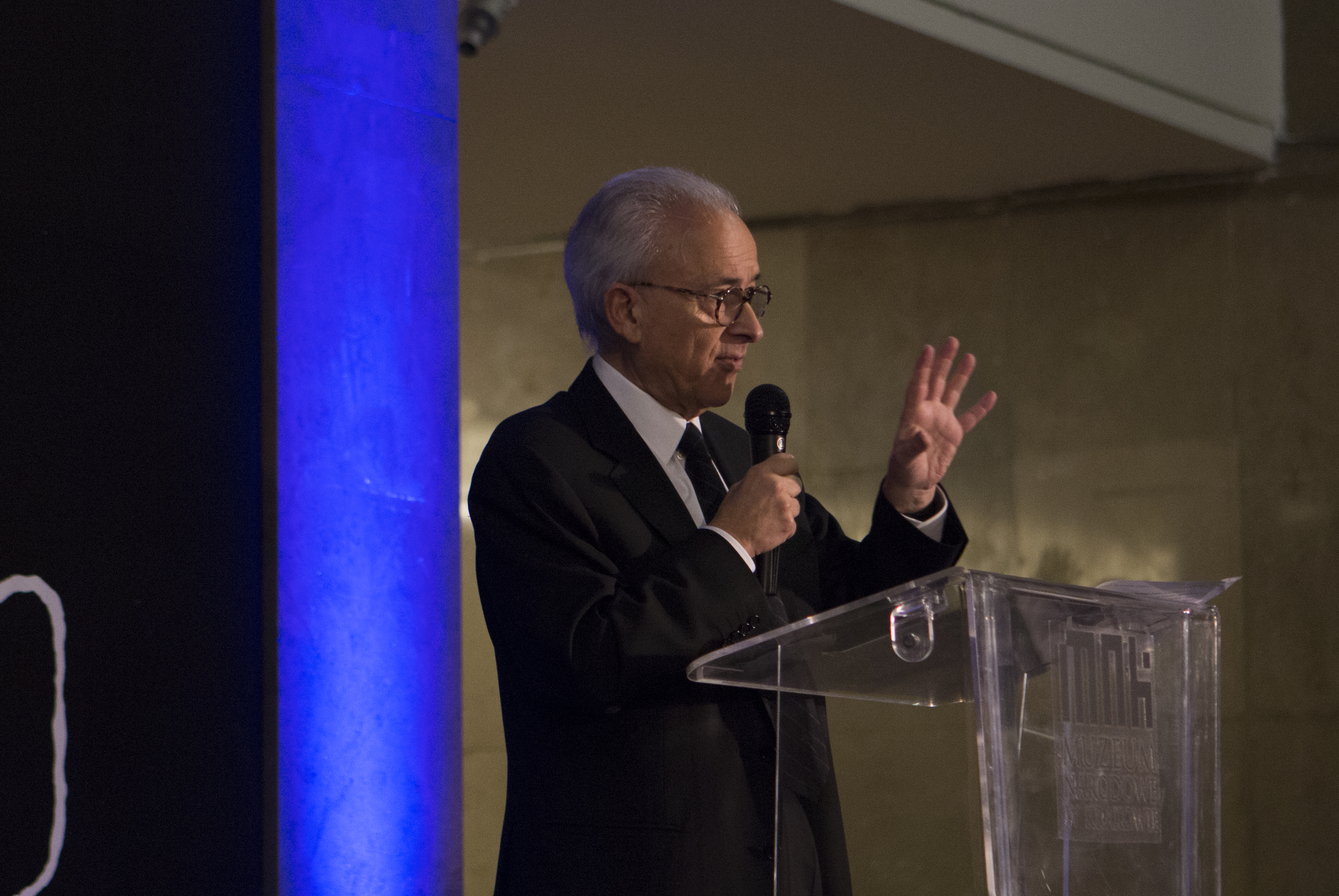 Antonio Damasio, a Portuguese-American neuroscientist, giving a lecture during Copernicus Festival in Kraków, Poland.